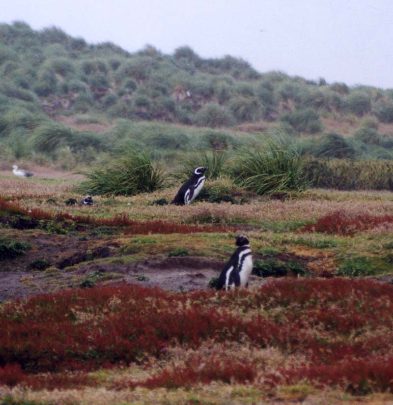 Photo of Spheniscus magellanicus (Magellanic penguin) on Carcass Island, Falkland Islands